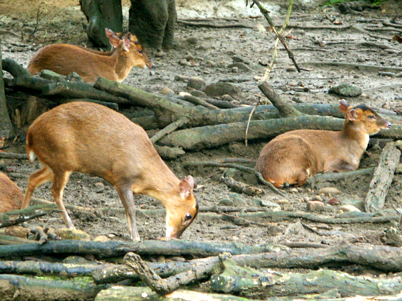 Formosan Reeve's muntjac, Endemic animals of Taiwan.